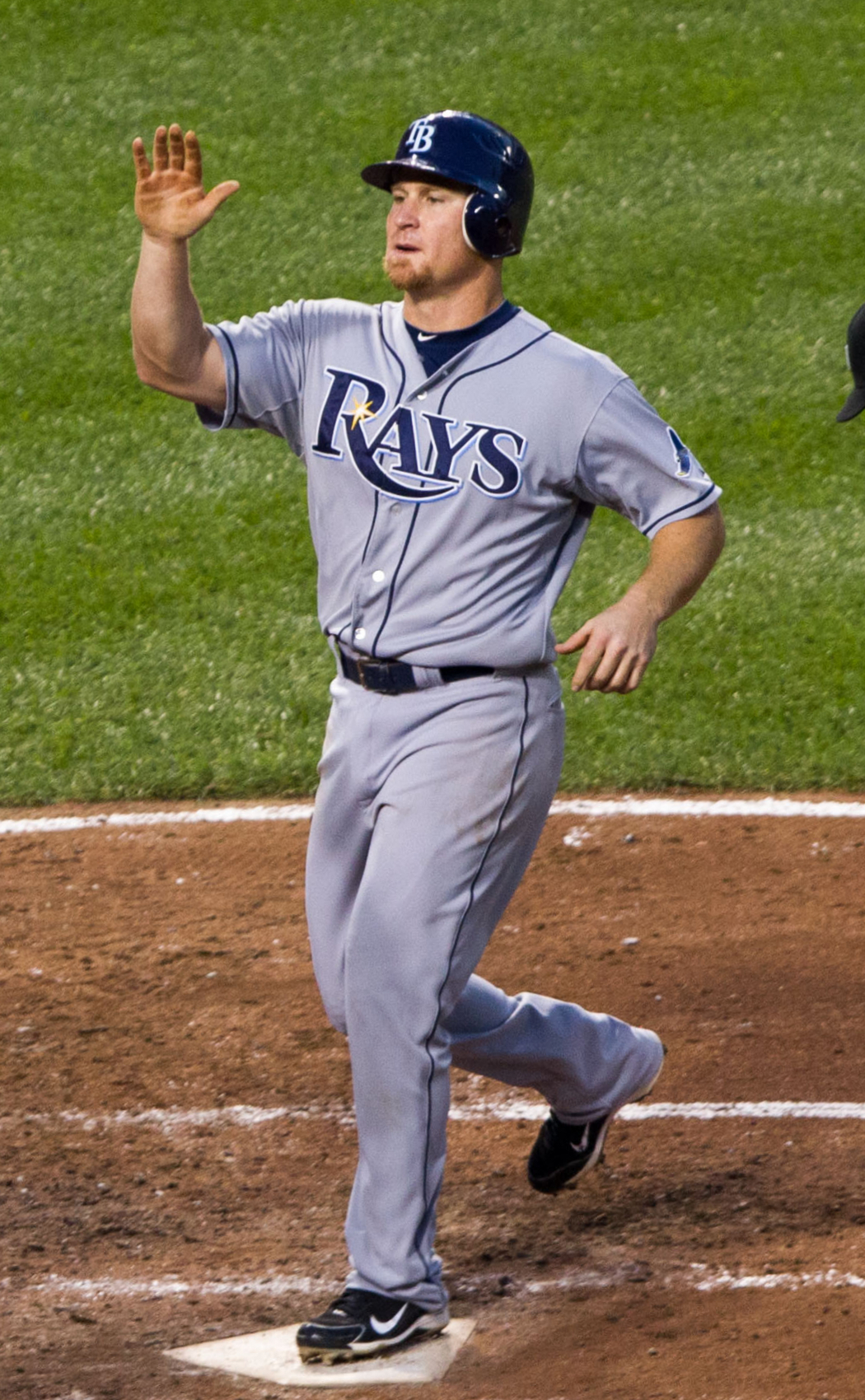 Brooks Conrad